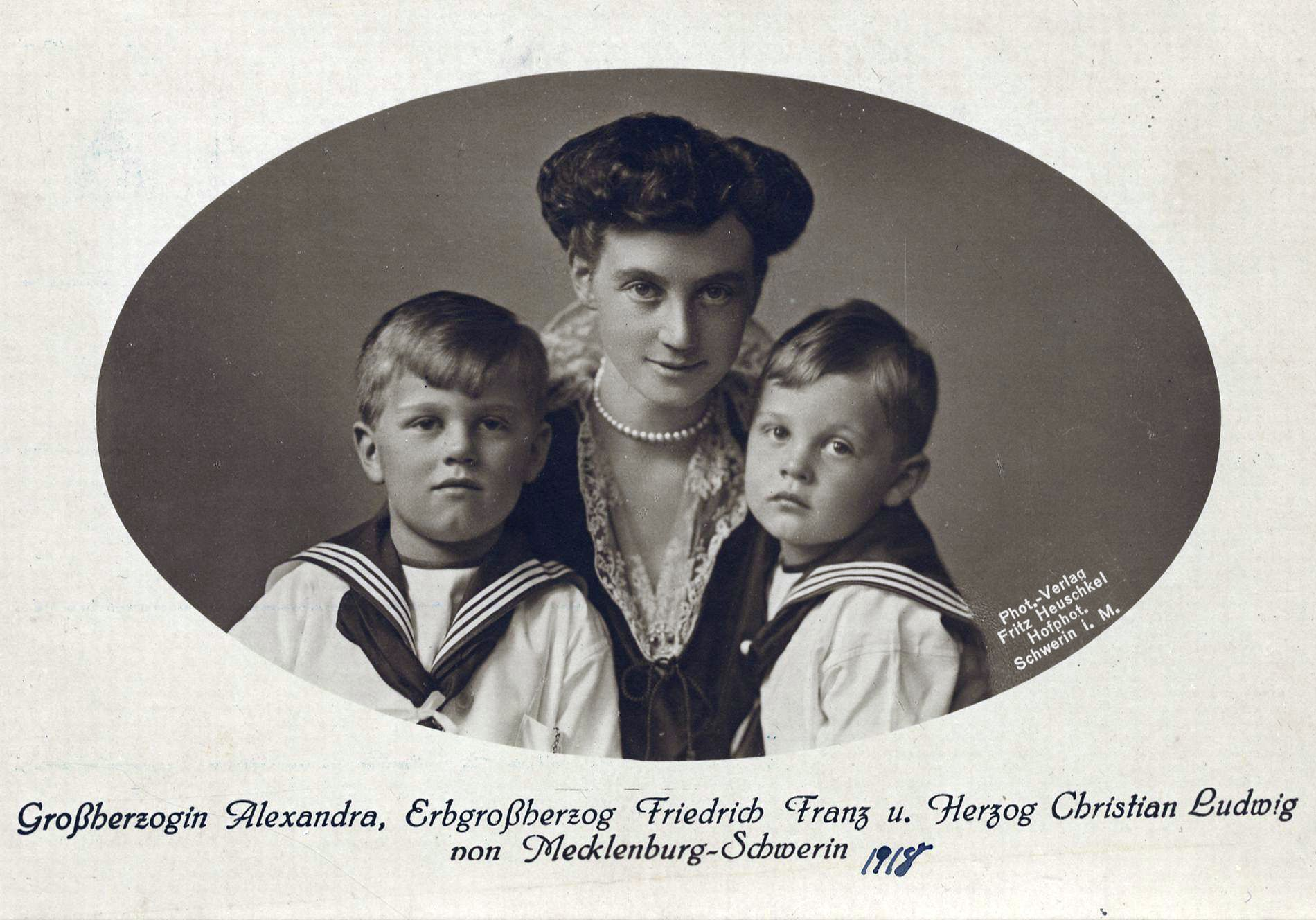 Postcard showing Grand Duchess Alexandra of Mecklenburg-Schwerin and her sons Friedrich Franz and Christian Ludwig